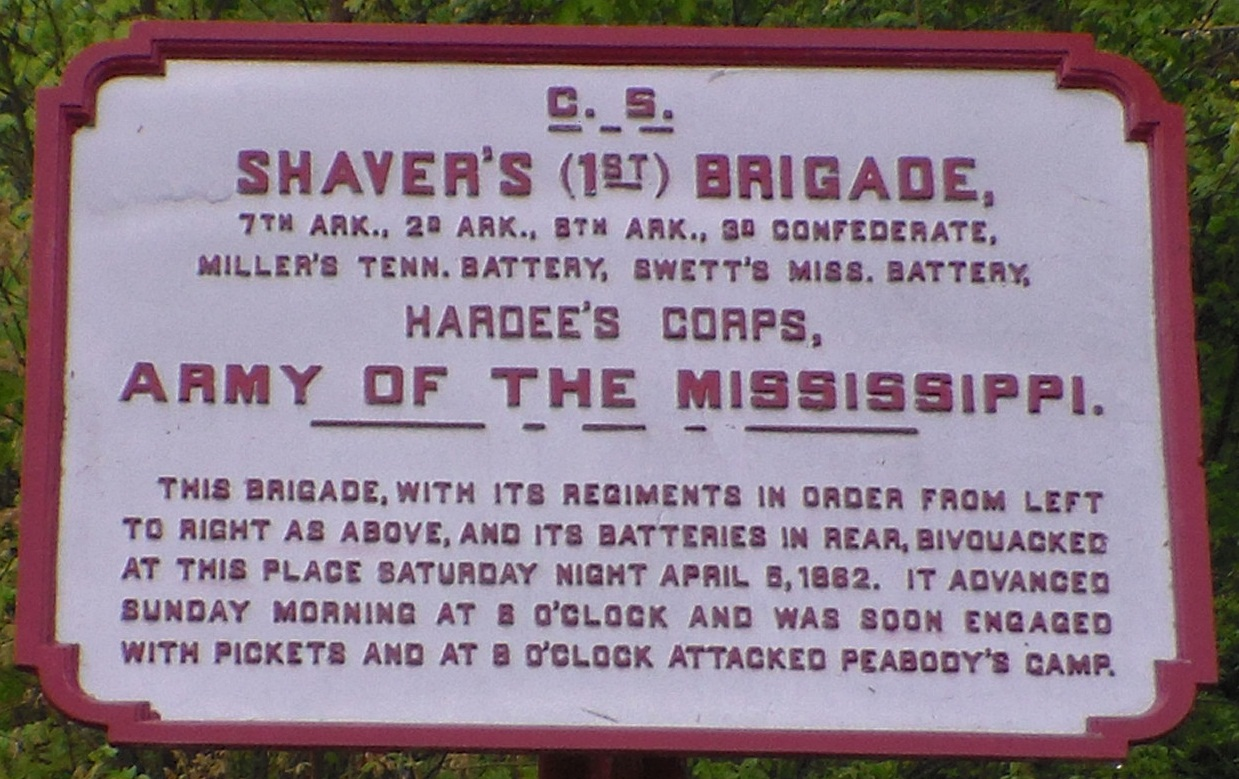 Miller's Tennessee Battery (Pillow Flying Artillery) Historical Marker Near Shiloh Battlefield